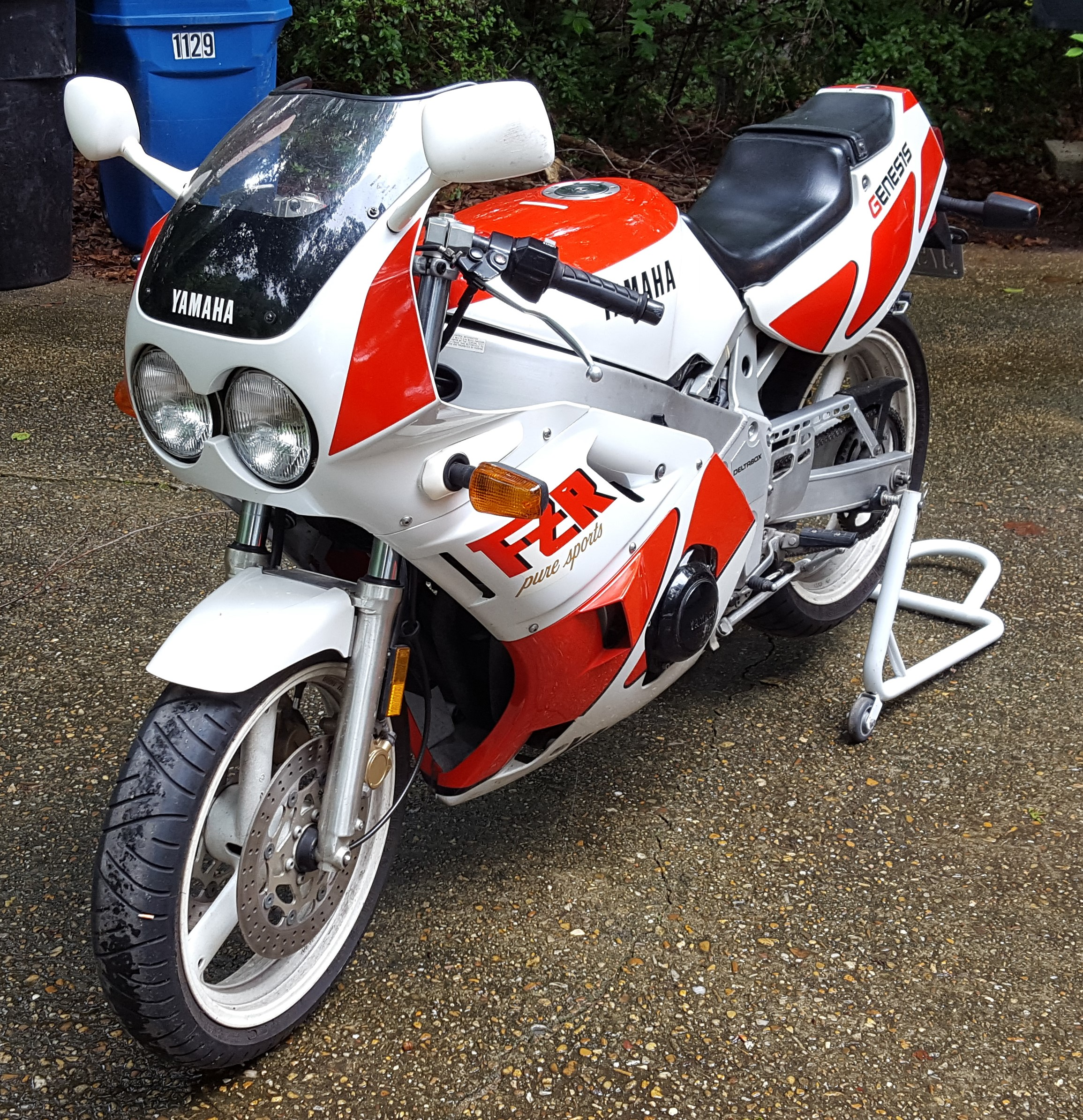 49-state US Market 1988 Yamaha FZR400 (1WG)